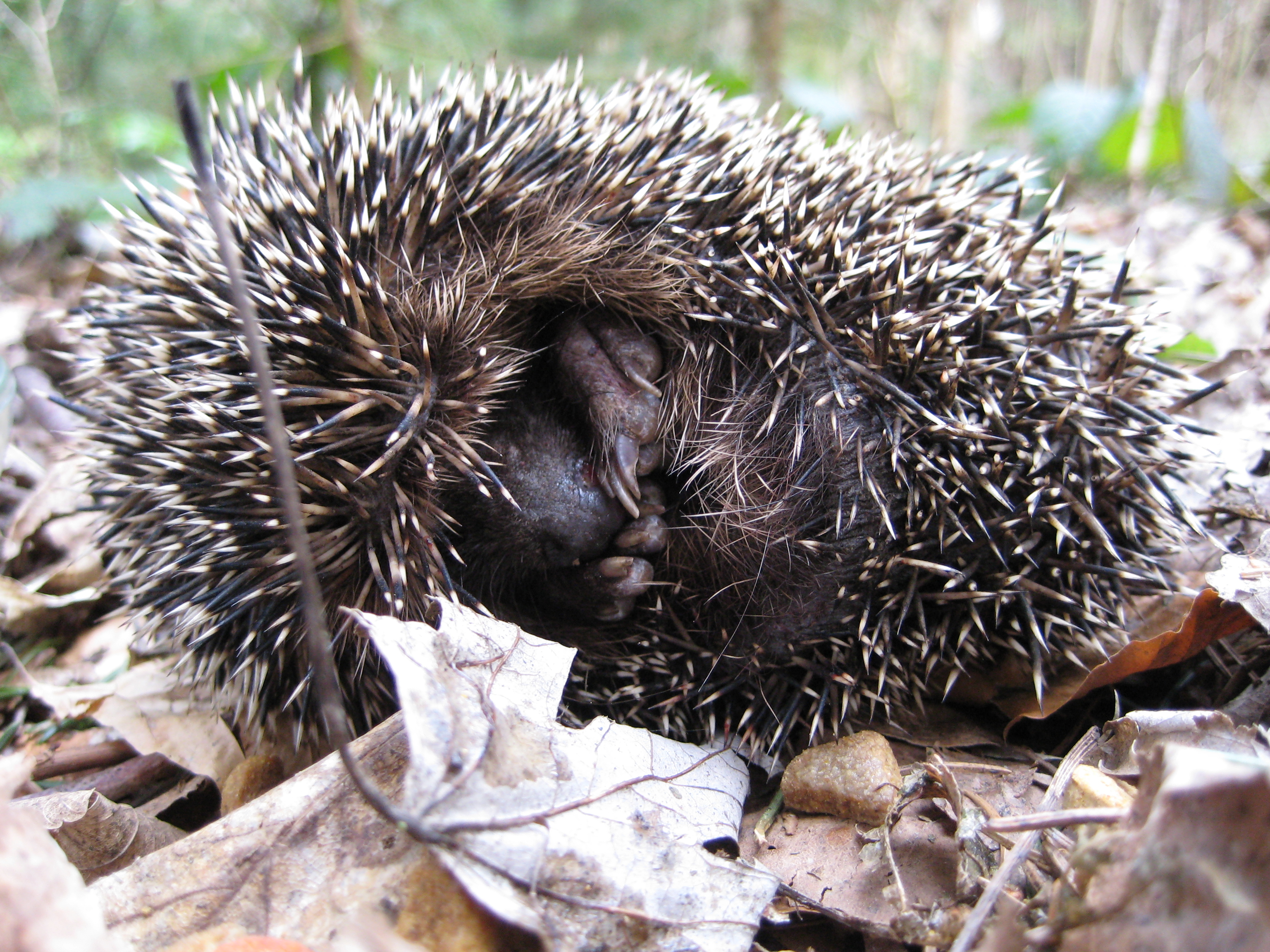 Erinaceidae